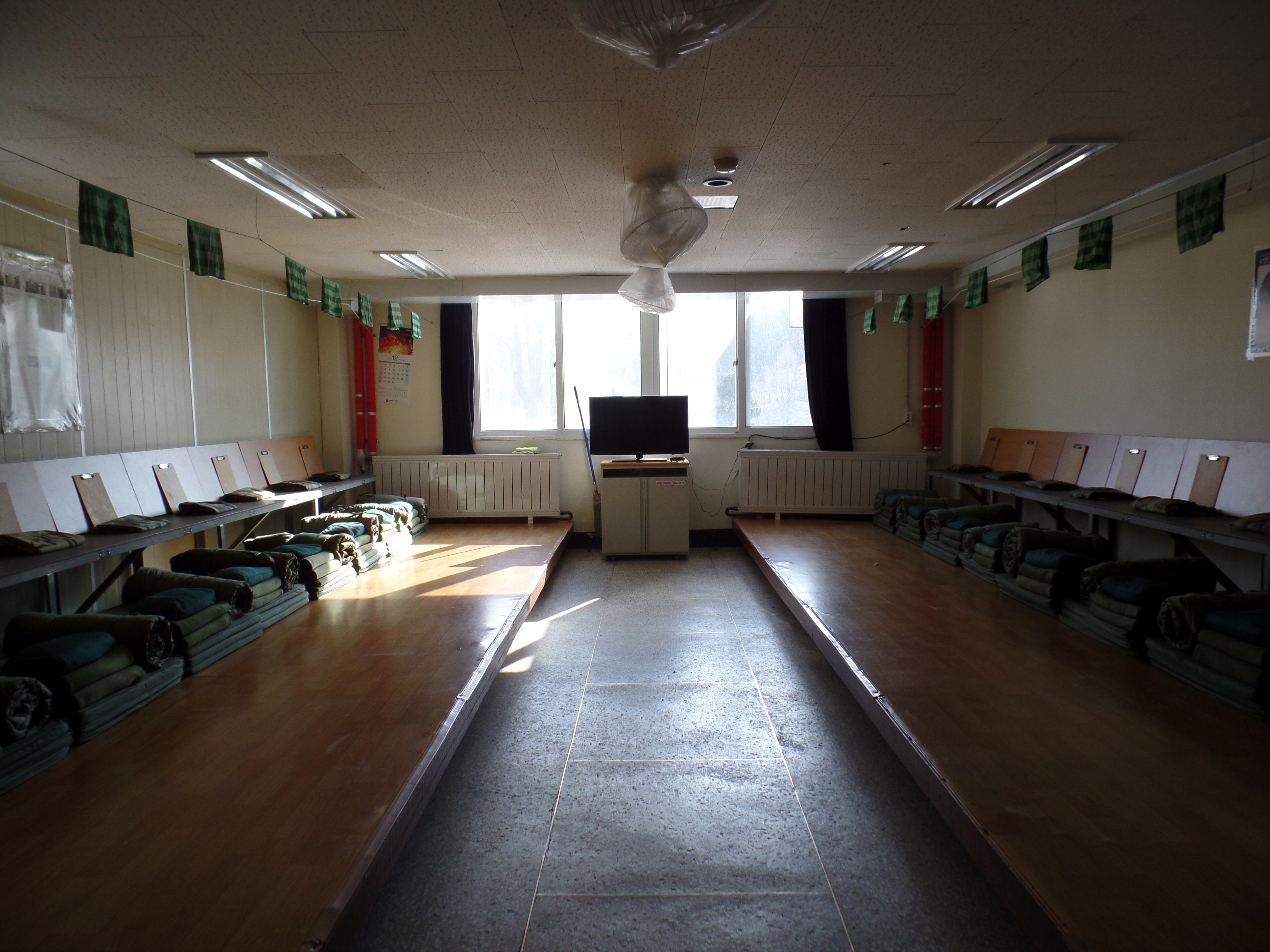 Squadroom in Republic of Korea Army 306th Replacement Battalion